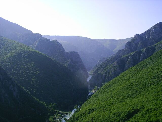 Treska River valley in the republic of Macedonia